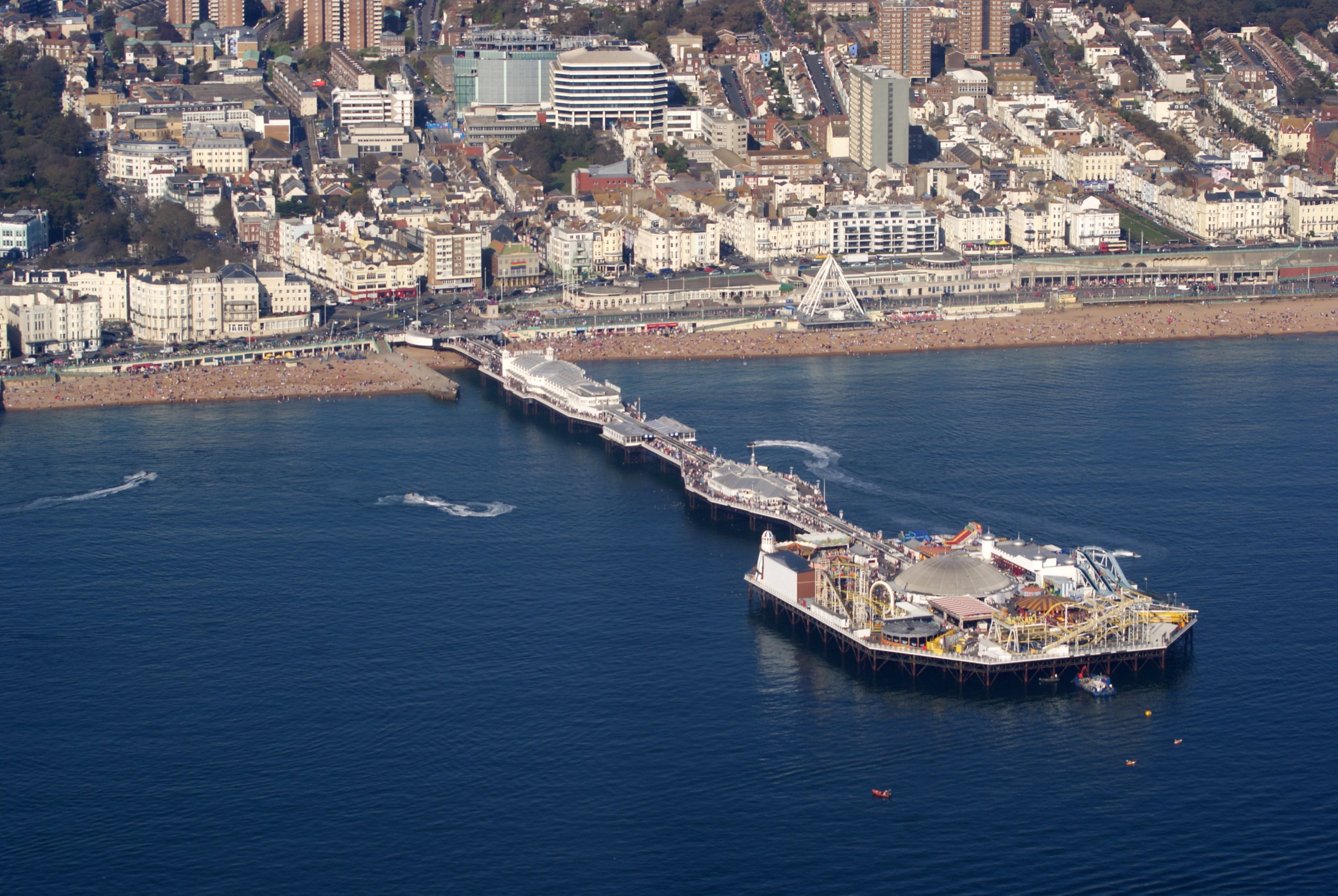 Brighton Marine Palace and Pier, Brighton, East Sussex, England.